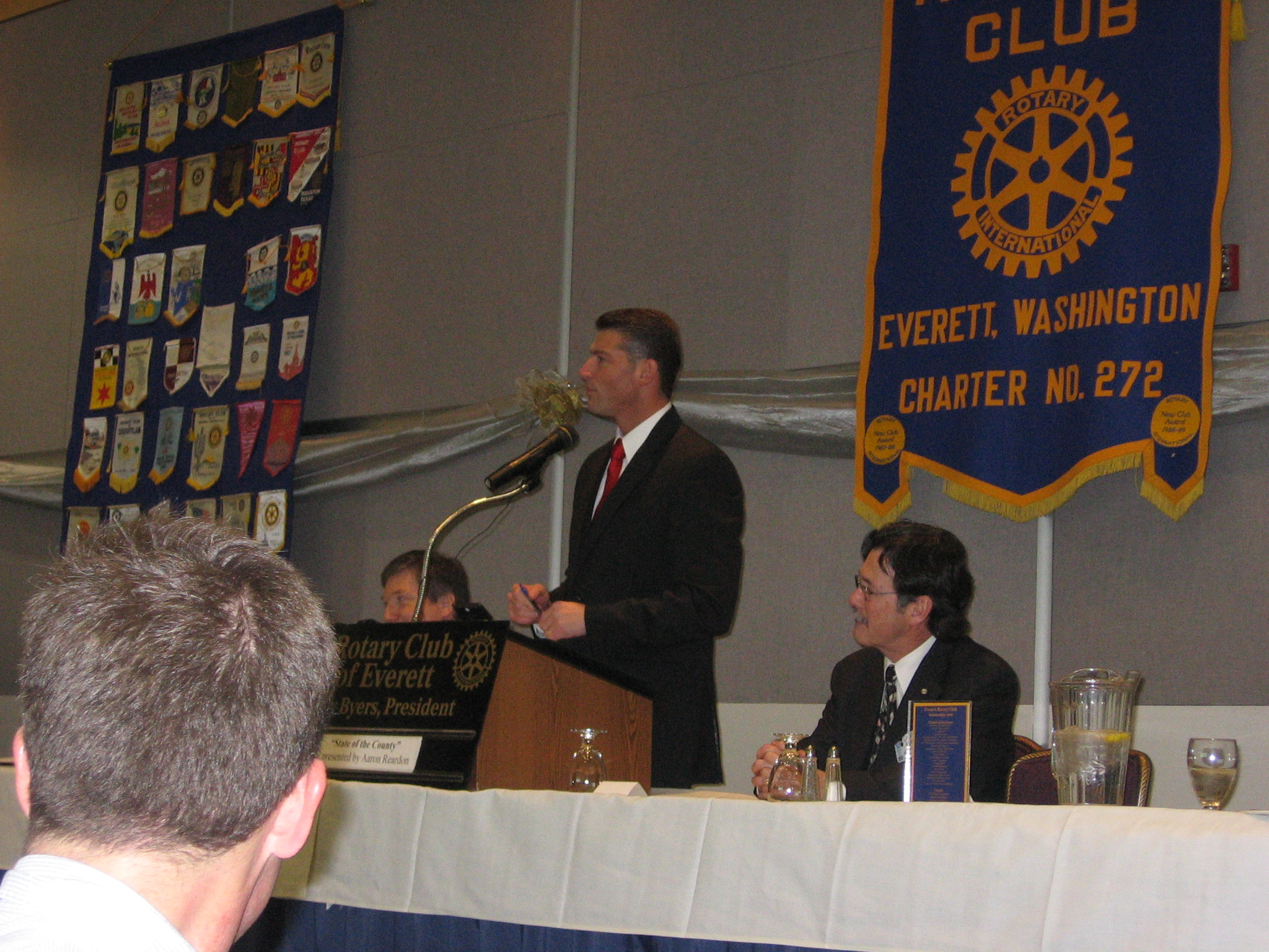 Snohomish County Executive Aaron Reardon (center, at microphone) speaks in Everett, Washington.